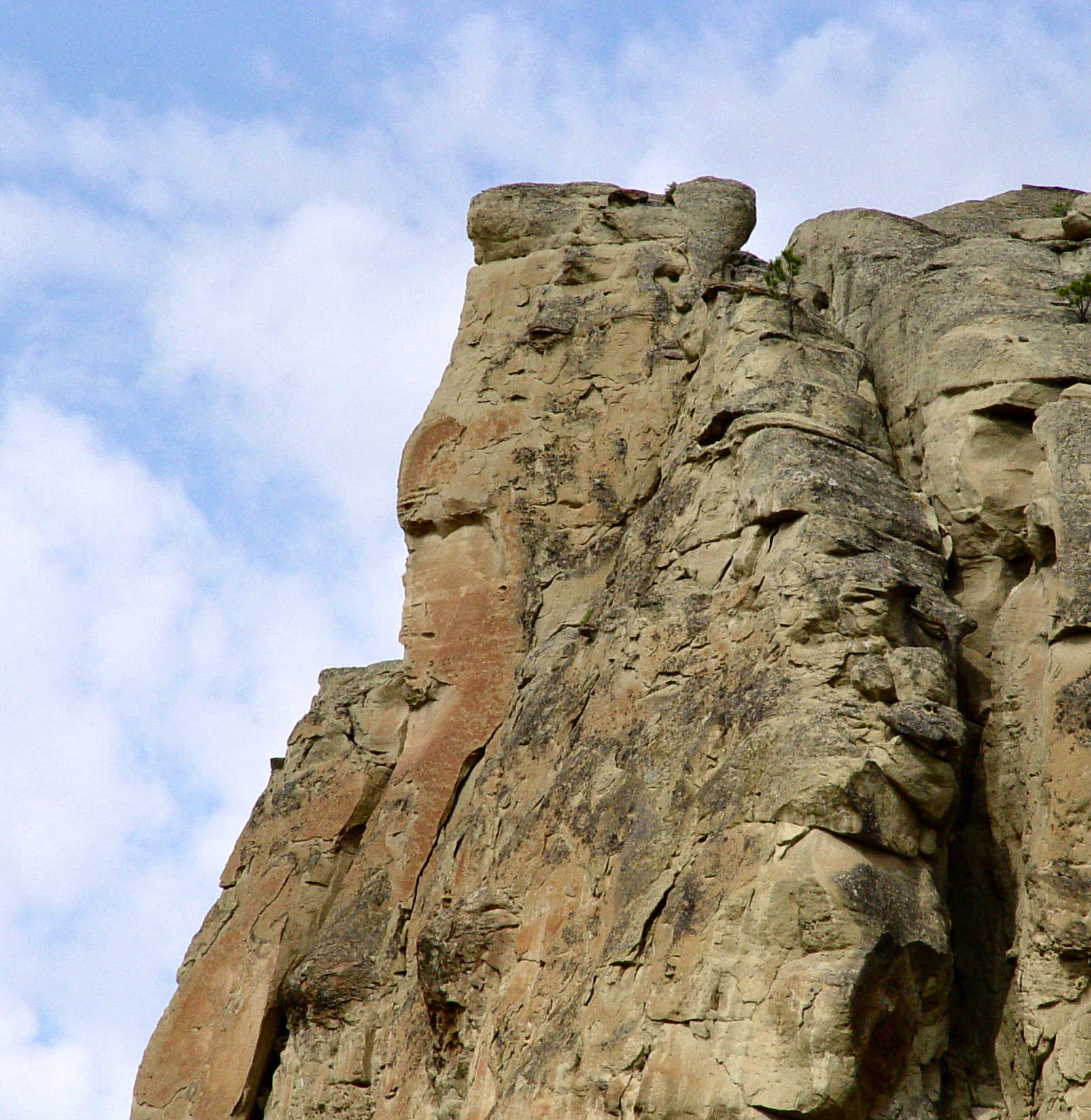 Pictograph cave state park in Montana.